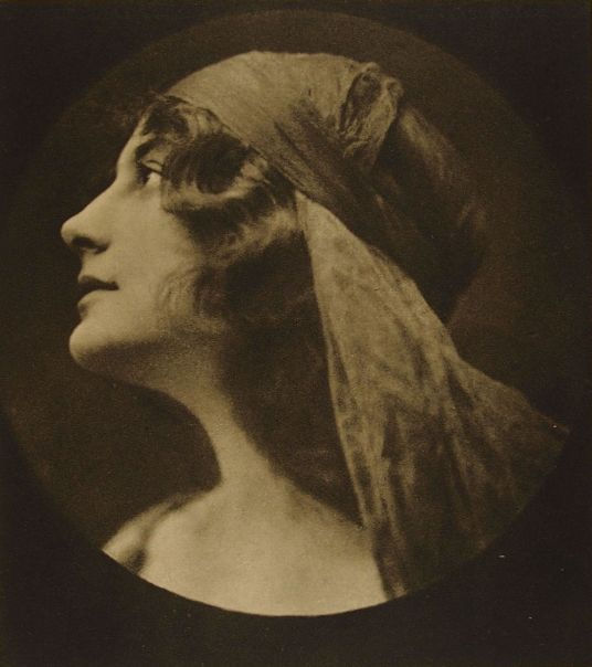 Photograph from The Book of Fair Women by E.O. Hoppé (1922)